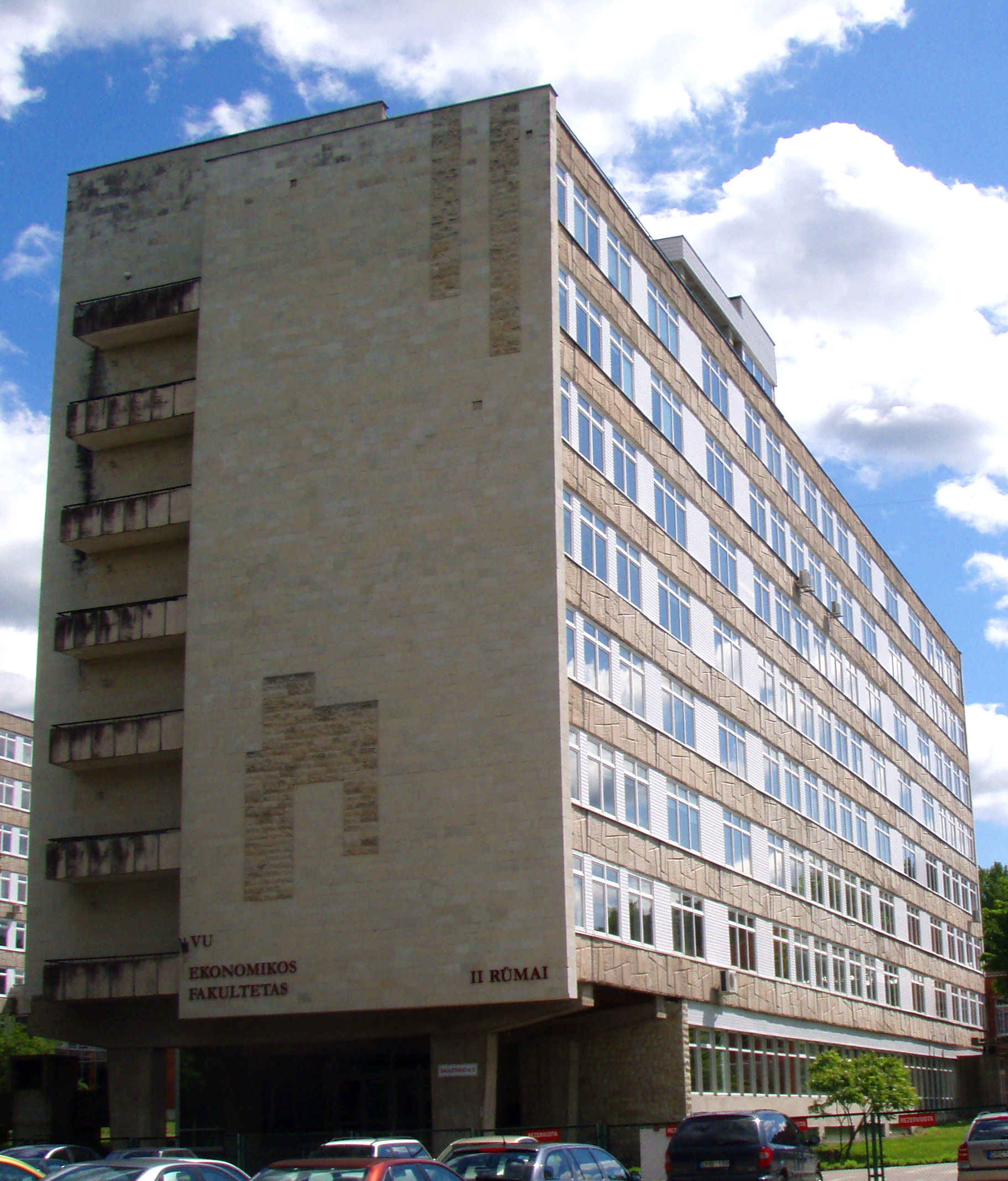 Vilnius university, faculty of ecnomics, Lithuania